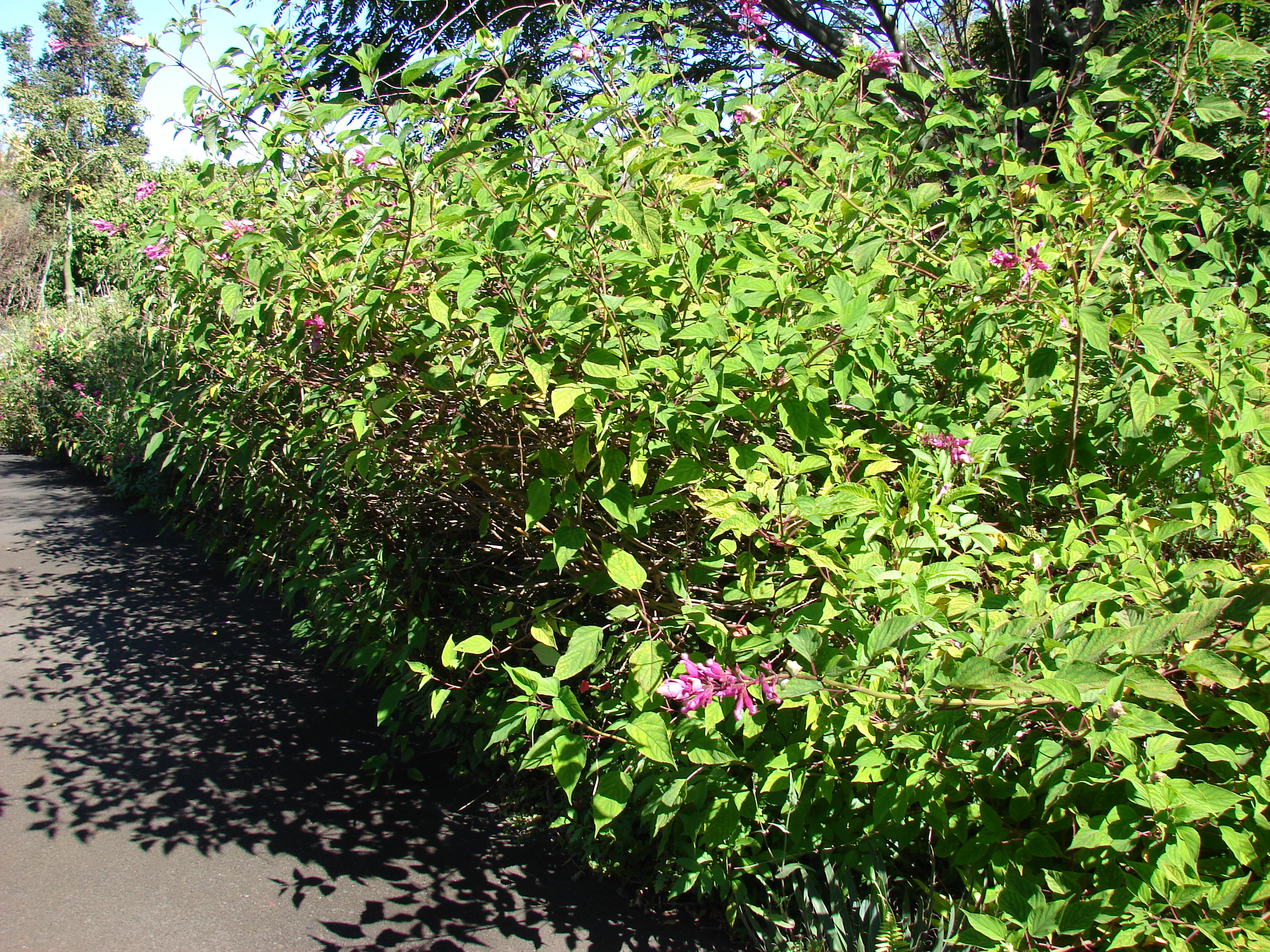 Salvia involucrata (habit). Location: Maui, Enchanting Floral Gardens of Kula